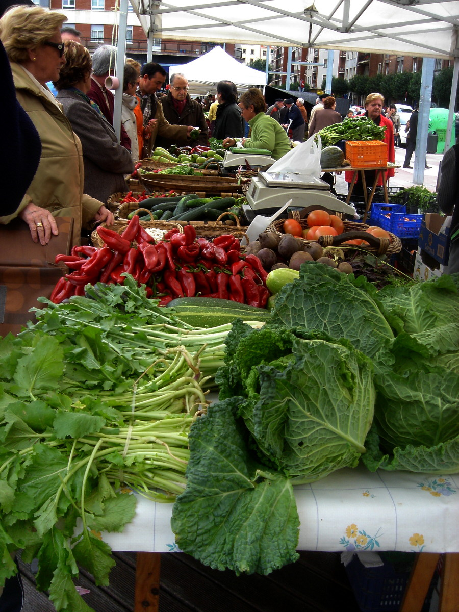 Farmers market in Vitoria-Gasteiz (Basque Country, Spain)